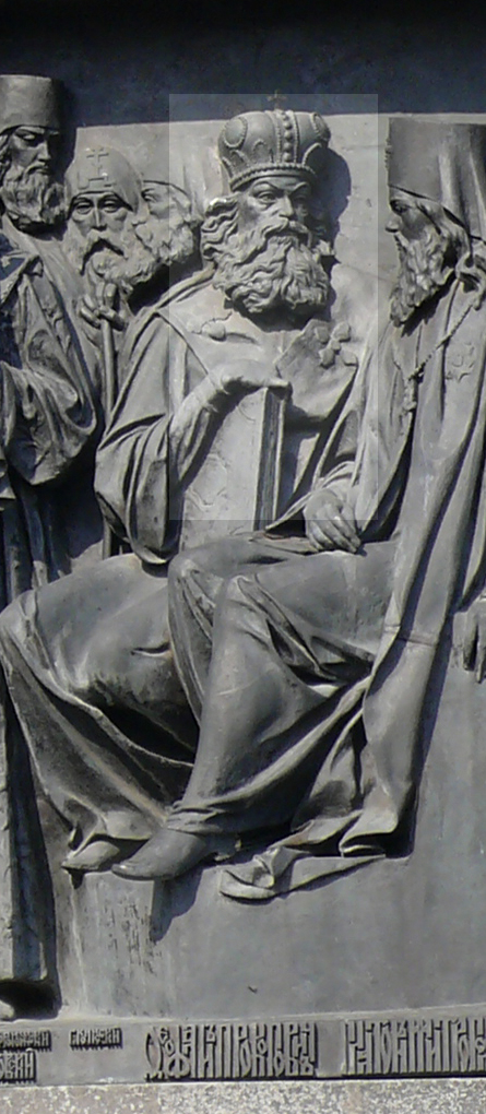 Feophan Prokopovich on the Monument "Millennuim of Russia" in Veliky Novgorod